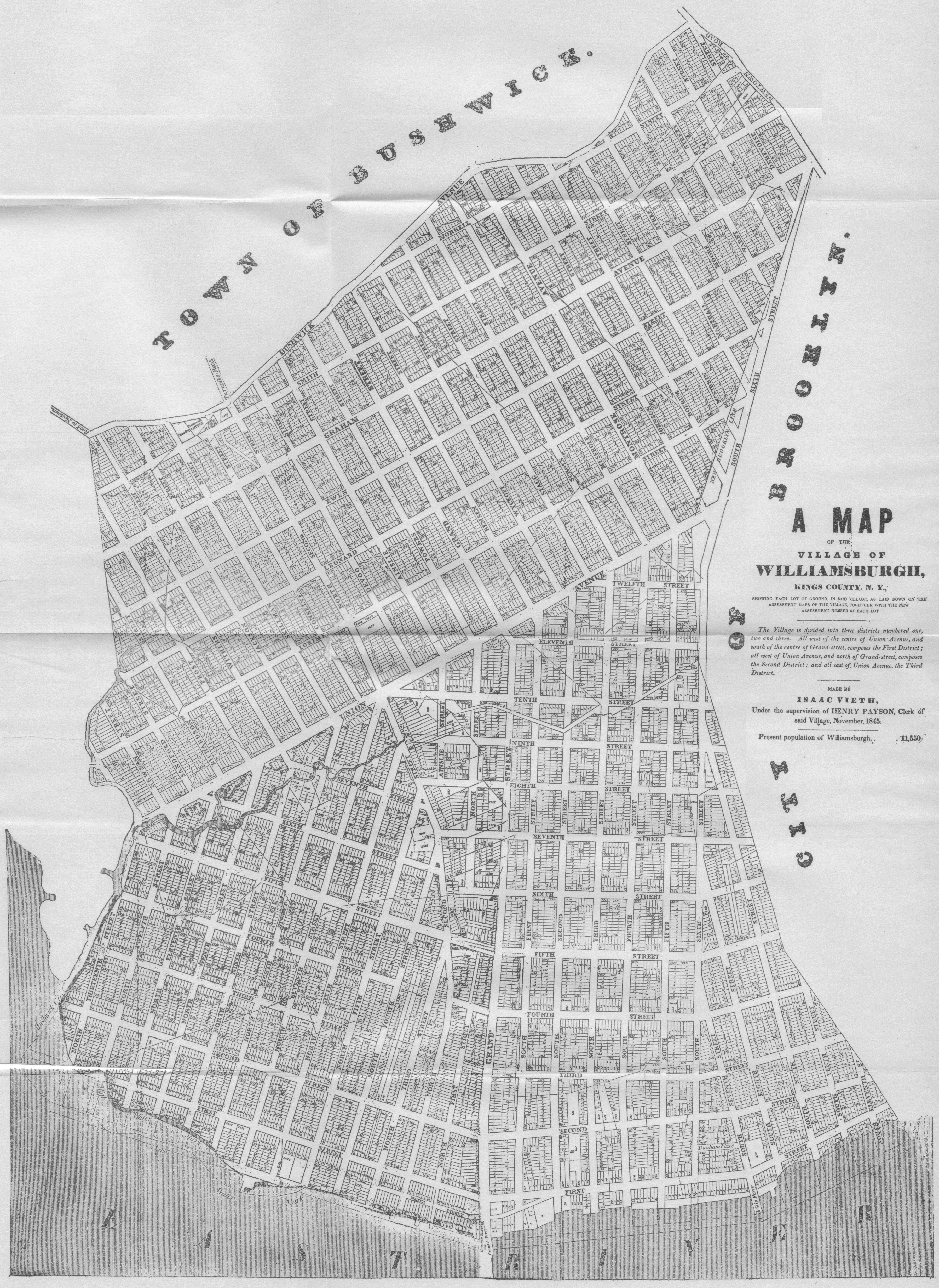 A Map of the Village of Williamsburg, Kings County, NY, showing each lot of ground in said village, as laid on the assessment maps of the village, together with the new assessment number of each lot. The village is divided into three districts numbered on, two and three. All west of the centre of Union Avenue, and south of the centre of Grand-street, composes the First District; all west of Union Avenue, and north of Grand-street, composes the Second District; and all east of Union Avenue, the Third District. Made by Isaac Vieth, under the supervision of Henry Payson, Clerk of said Village, November 1845. Present population of Williamsburgh, 11,550. North is left.